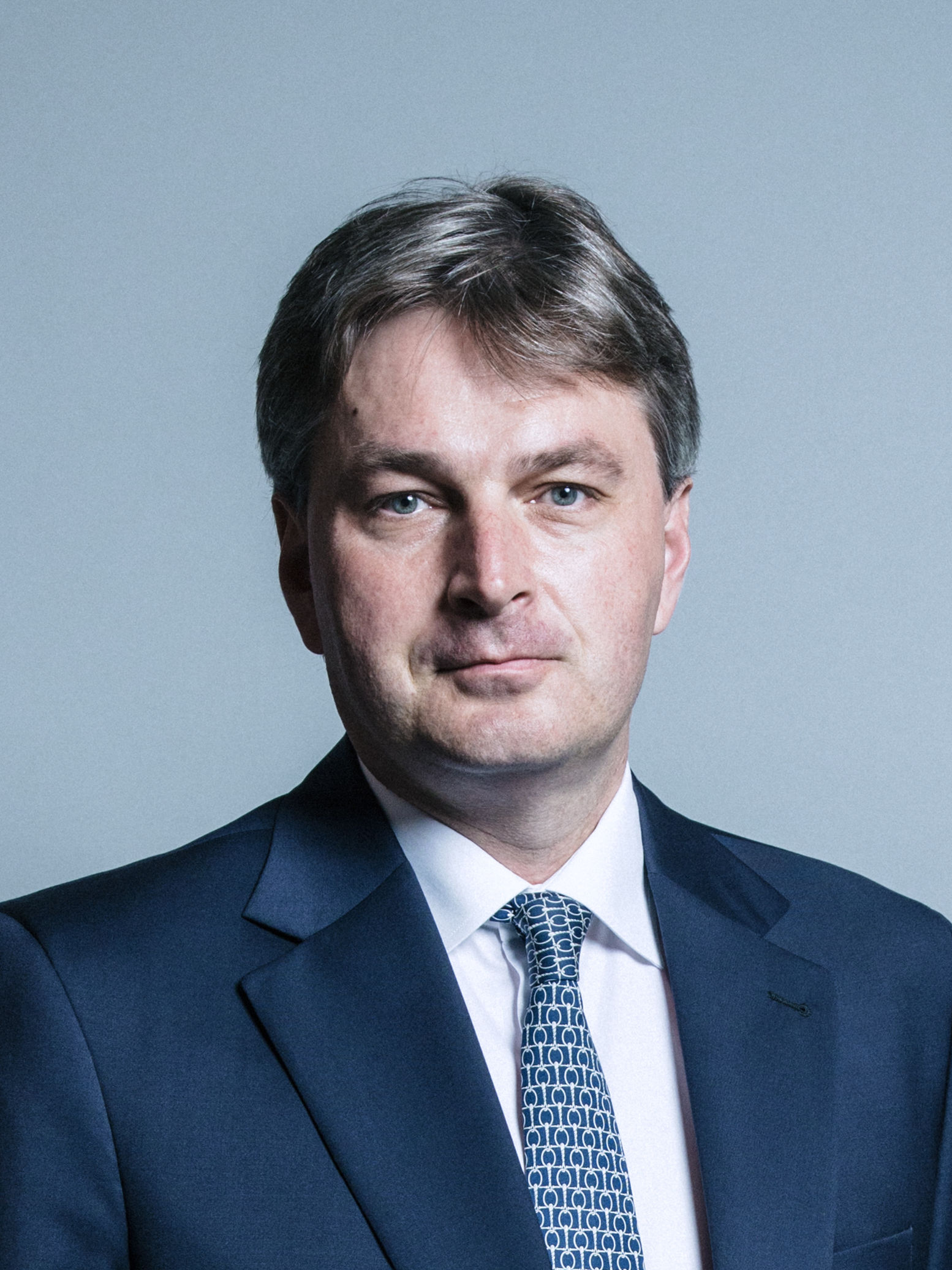 Official portrait of Daniel Kawczynski